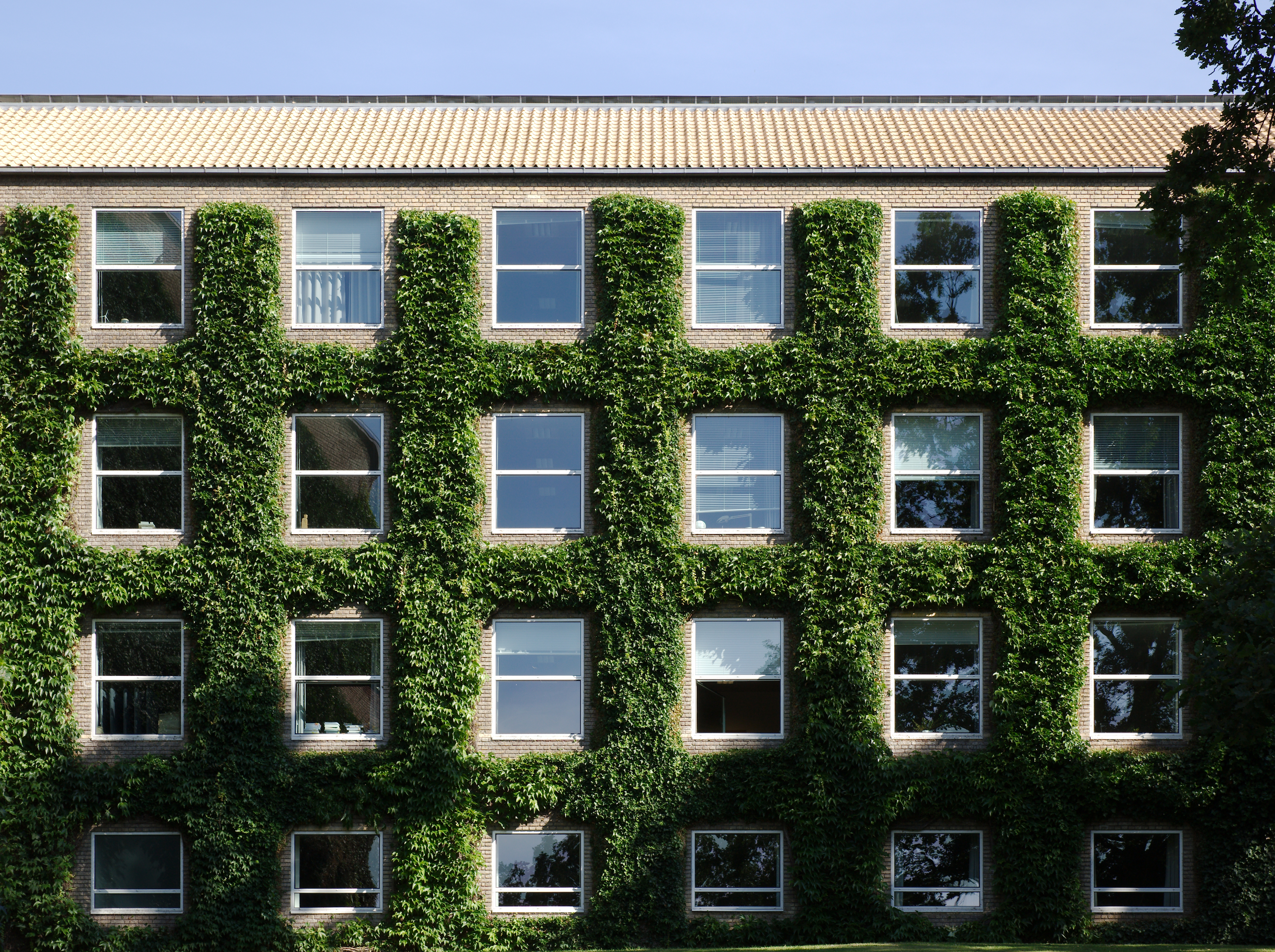 Ivy around the windows, facade facing the University Park